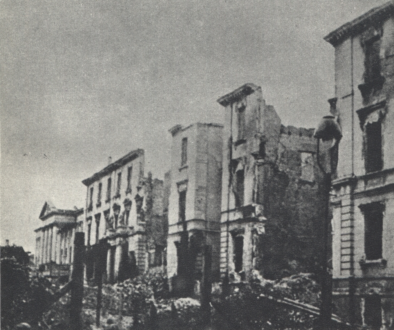 Buildings on the University of Warsaw campus, destroyed during the German siege of Warsaw in September 1939. Photo taken in autumn 1939.